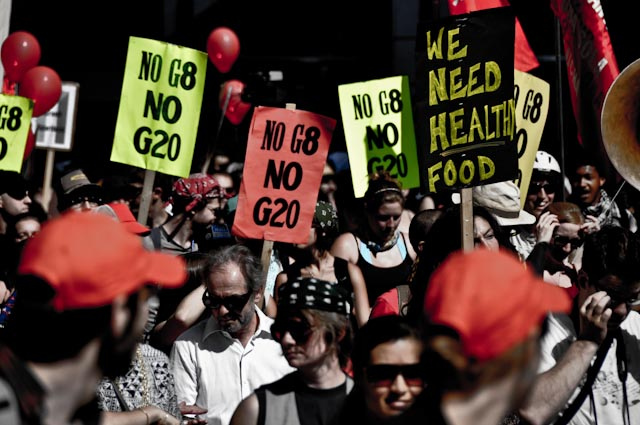 Demonstrations in Carlton street , Toronto #3